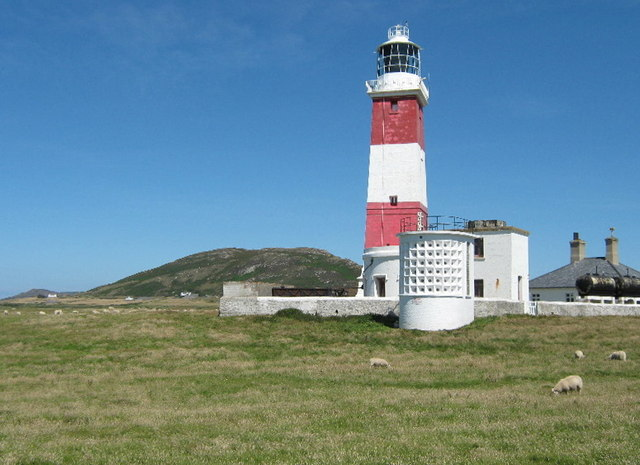 Bardsey Lighthouse and Mynydd Enlli